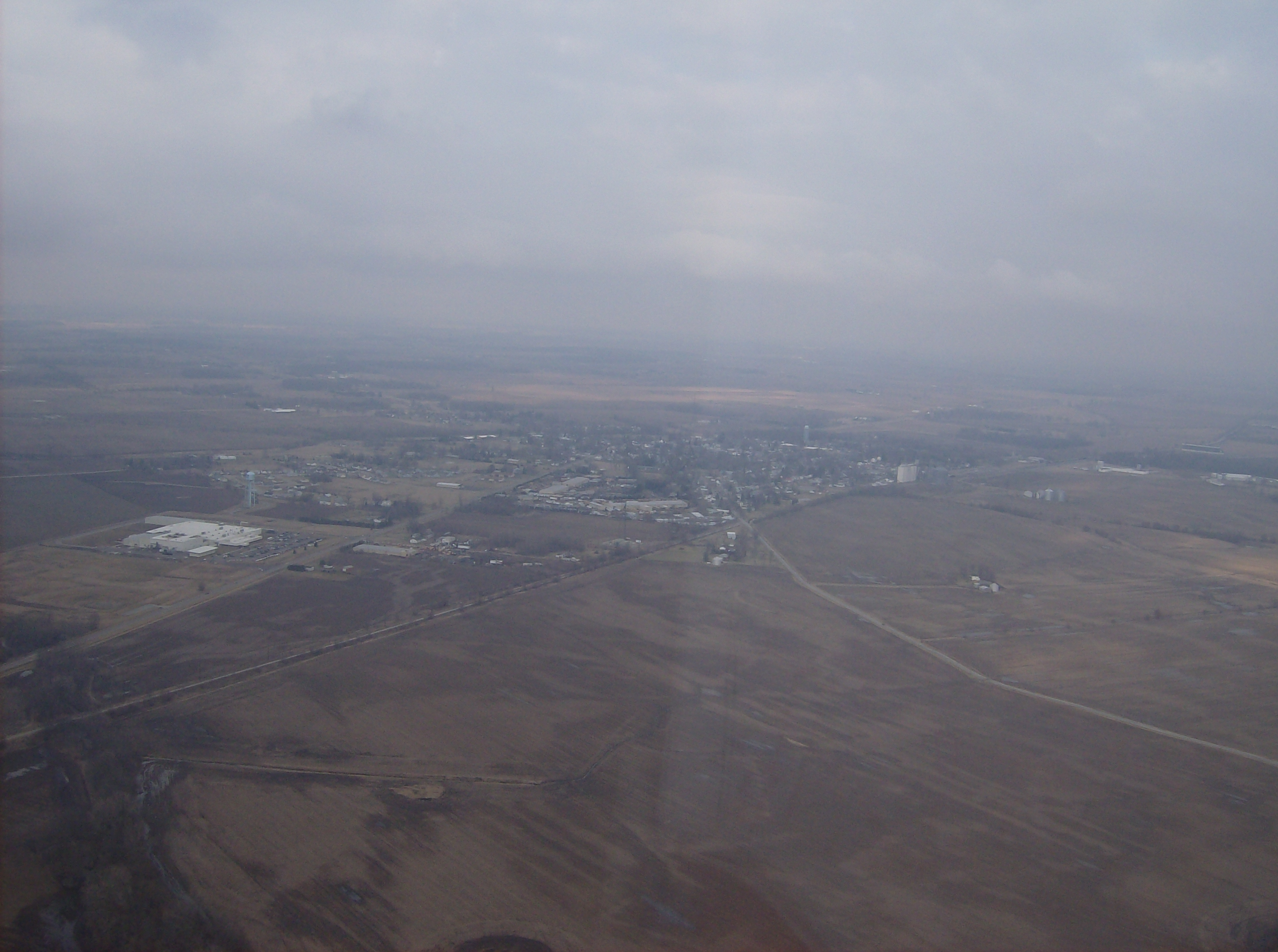 Aerial view of South Charleston, Ohio, United States, taken from Diamond Eclipse light airplane. Picture taken from an altitude of 2,250 feet MSL at an bearing of approximately 349º.